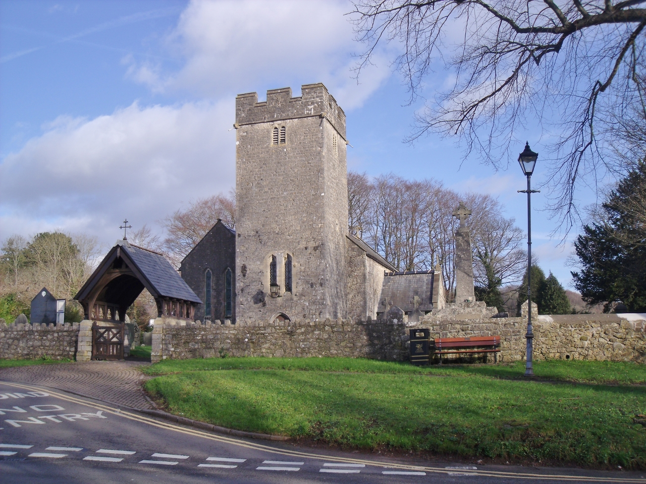 St Mary's Church, St Fagans, built around 1300 AD. St Fagans is located on the Ely River just west of Cardiff. It is also home to the National History Museum. The village is well preserved with lots of old stone houses.